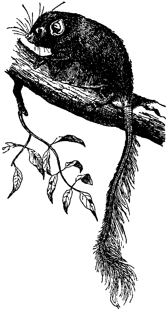 Drawing of pigmy African flying squirrel (Idiurus zenkeri).